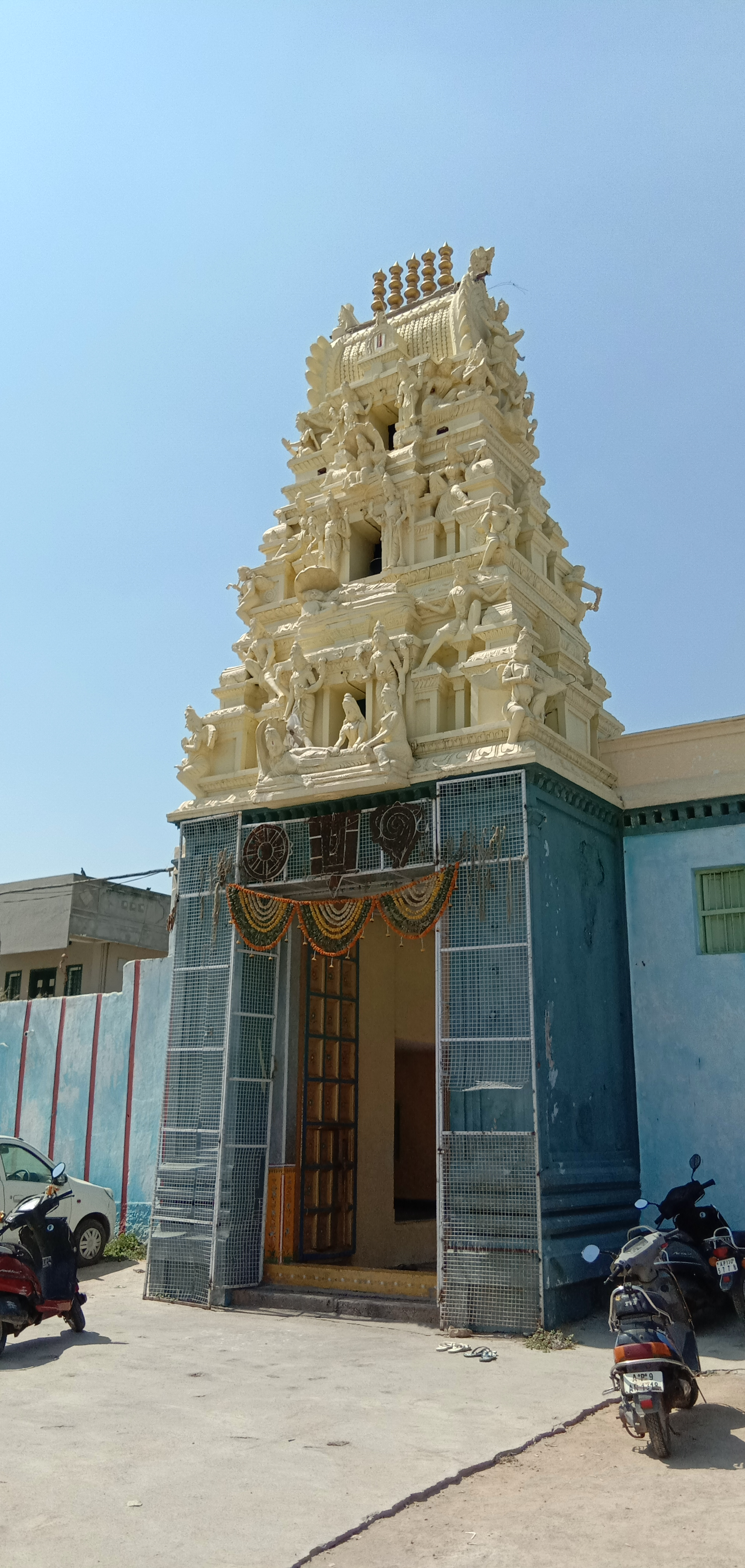 The gopuram (temple tower) of the Sriranganathaswamy temple at Jiyaguda, Hyderabad.